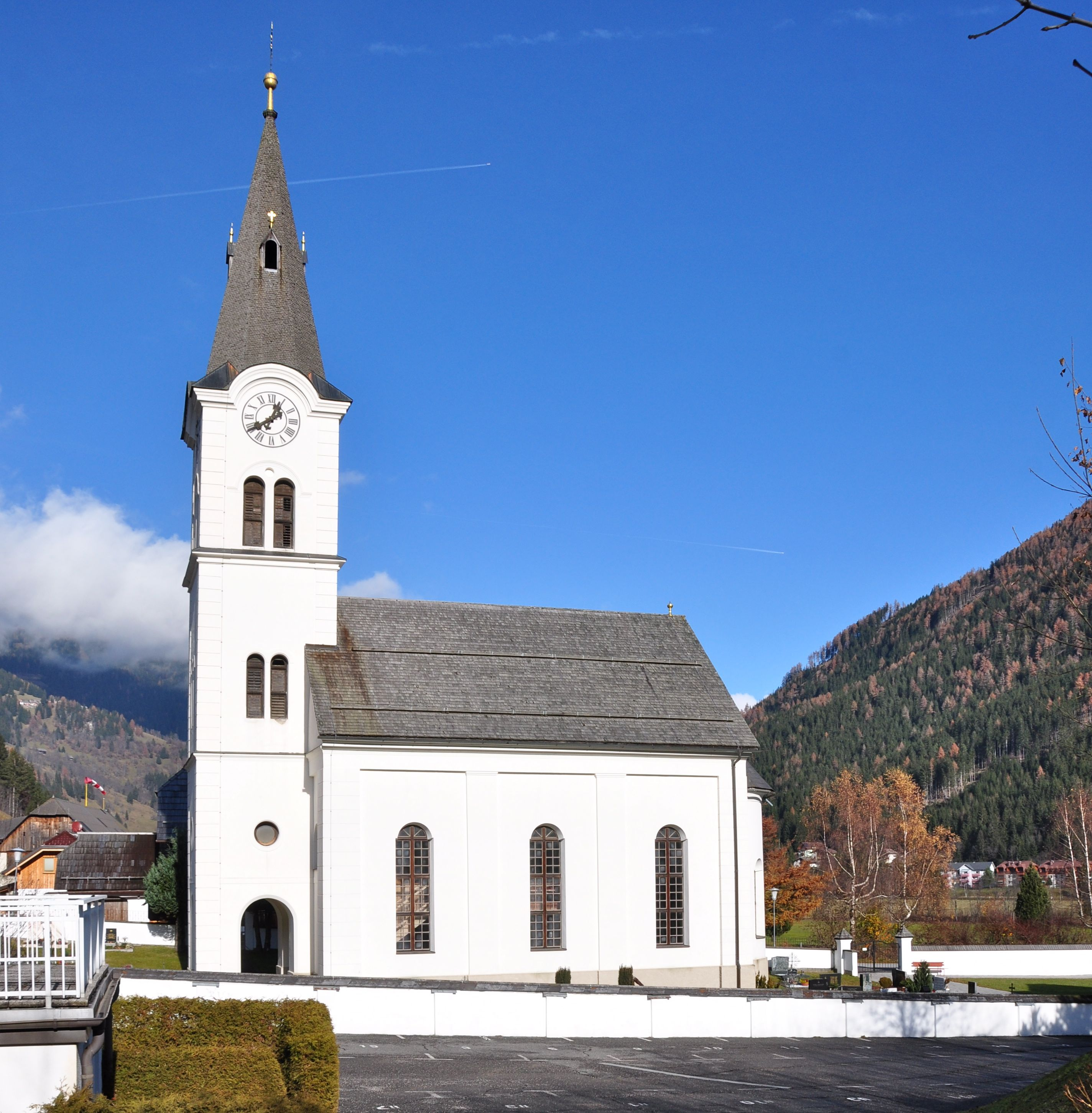 Protestant parish church with cemetery at Wiedweg, municipality Reichenau, district Feldkirchen, Carinthia / Austria / EU